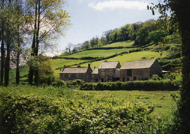 Branscombe: Manor Mill. Now owned by the National Trust, the mill machinery was restored to working order in the 1990s and the mill is open to the public